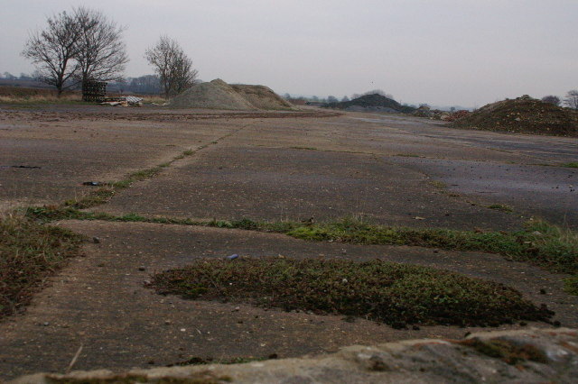 Remains of 2nd World War Airfield Runway.